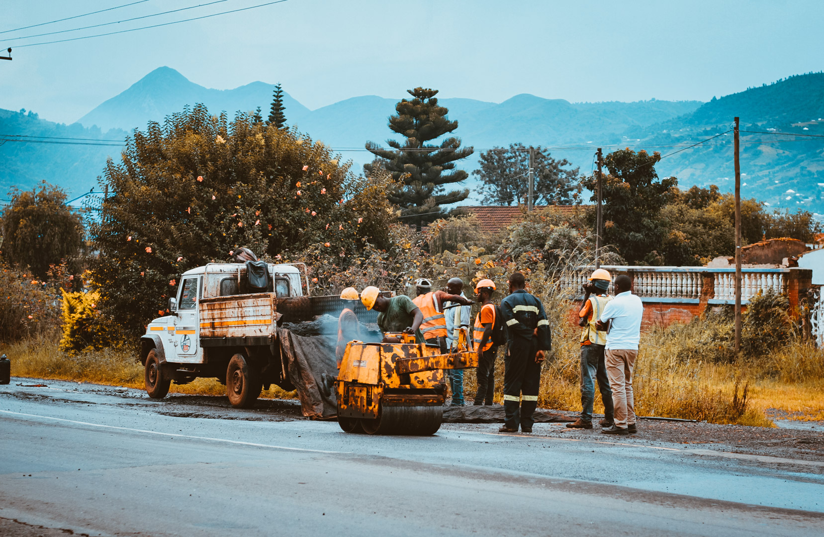 Mbeya Road maintenance This is an image with the theme "Africa on the Move or Transport" from: Tanzania